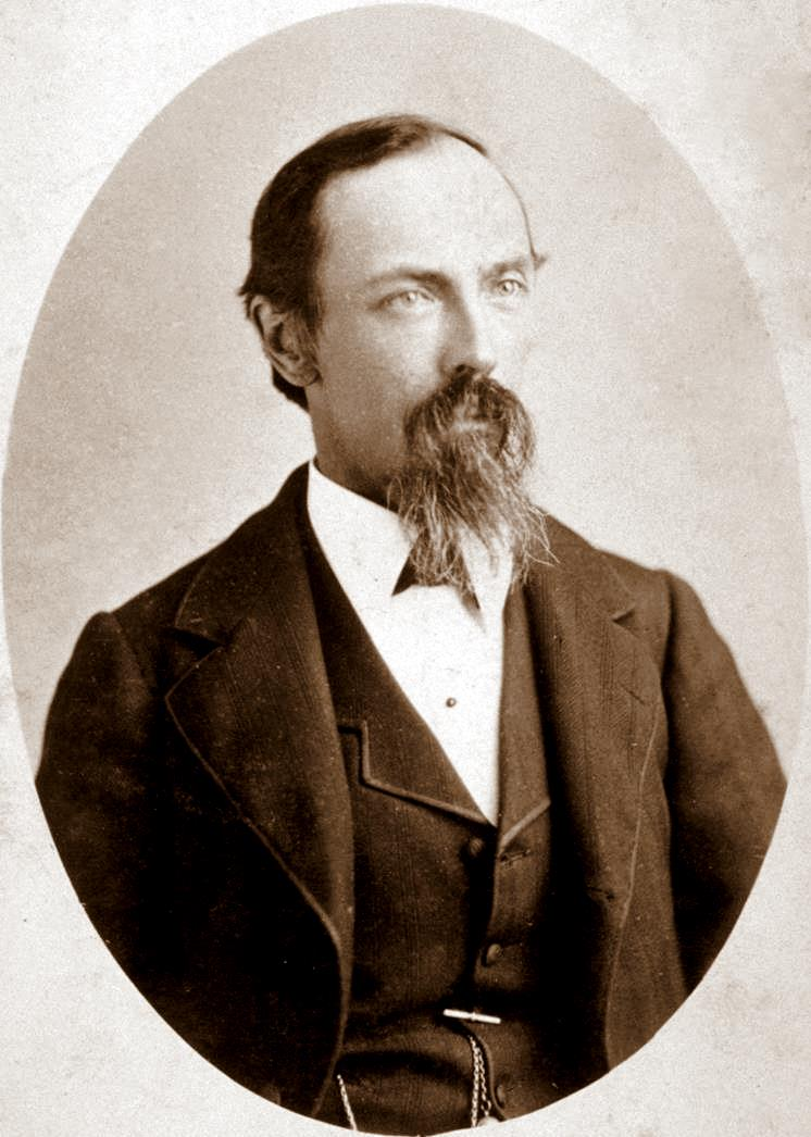 Eugene Woldemar Hilgard, Prof. Agriculture & Botany